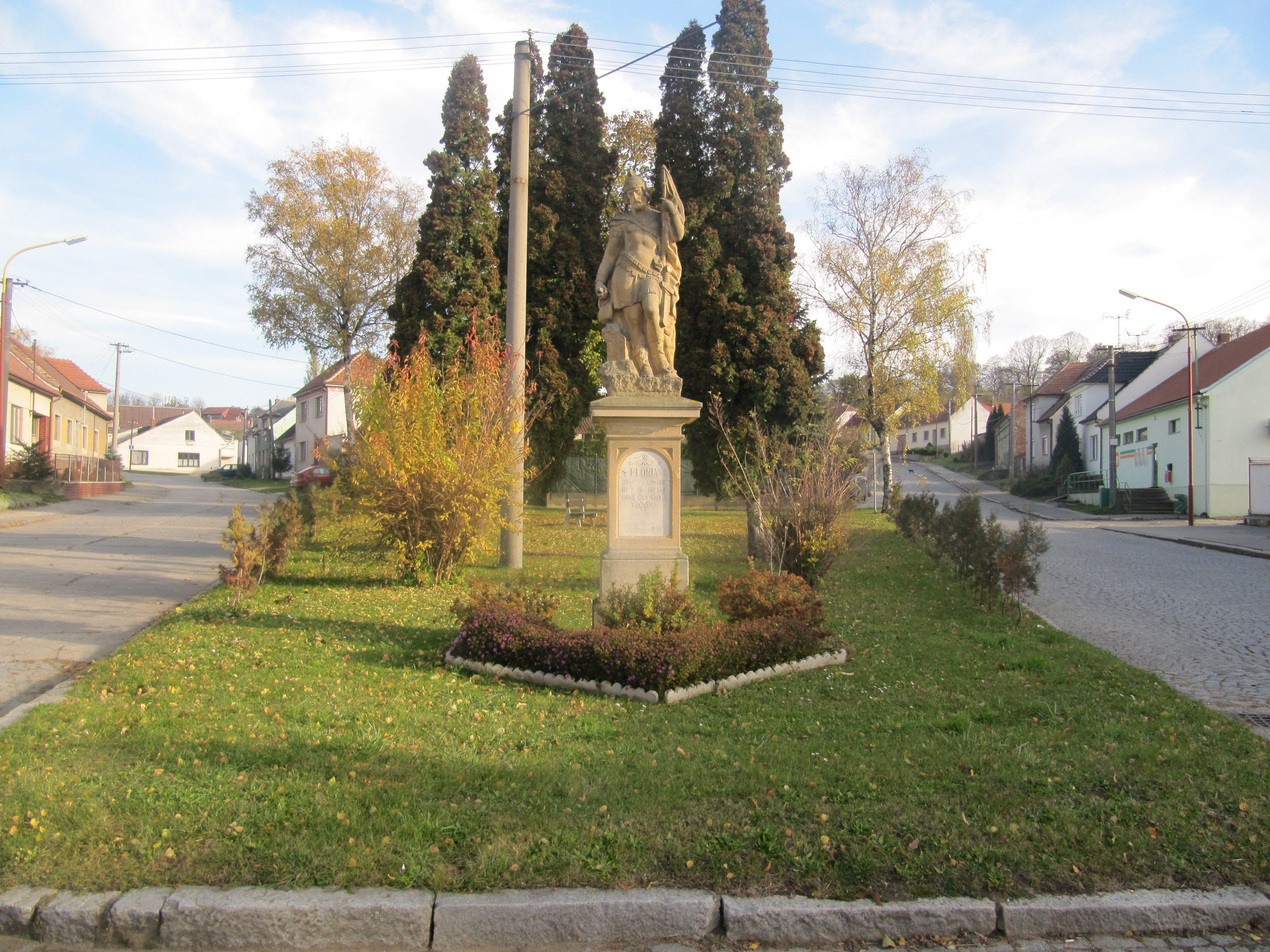 Domanínin Hodonín District, Czech Republic. St.-Florian-Statue.